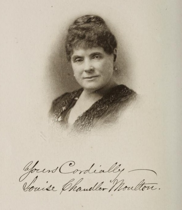 Image of American author/poet Louise Chandler Moulton (1835-1908). From the frontispiece to her collection The Poems and Sonnets of Lousie Chandler Moulton. Boston: Little, Brown, and Company, 1909. Includes her replicated signature.